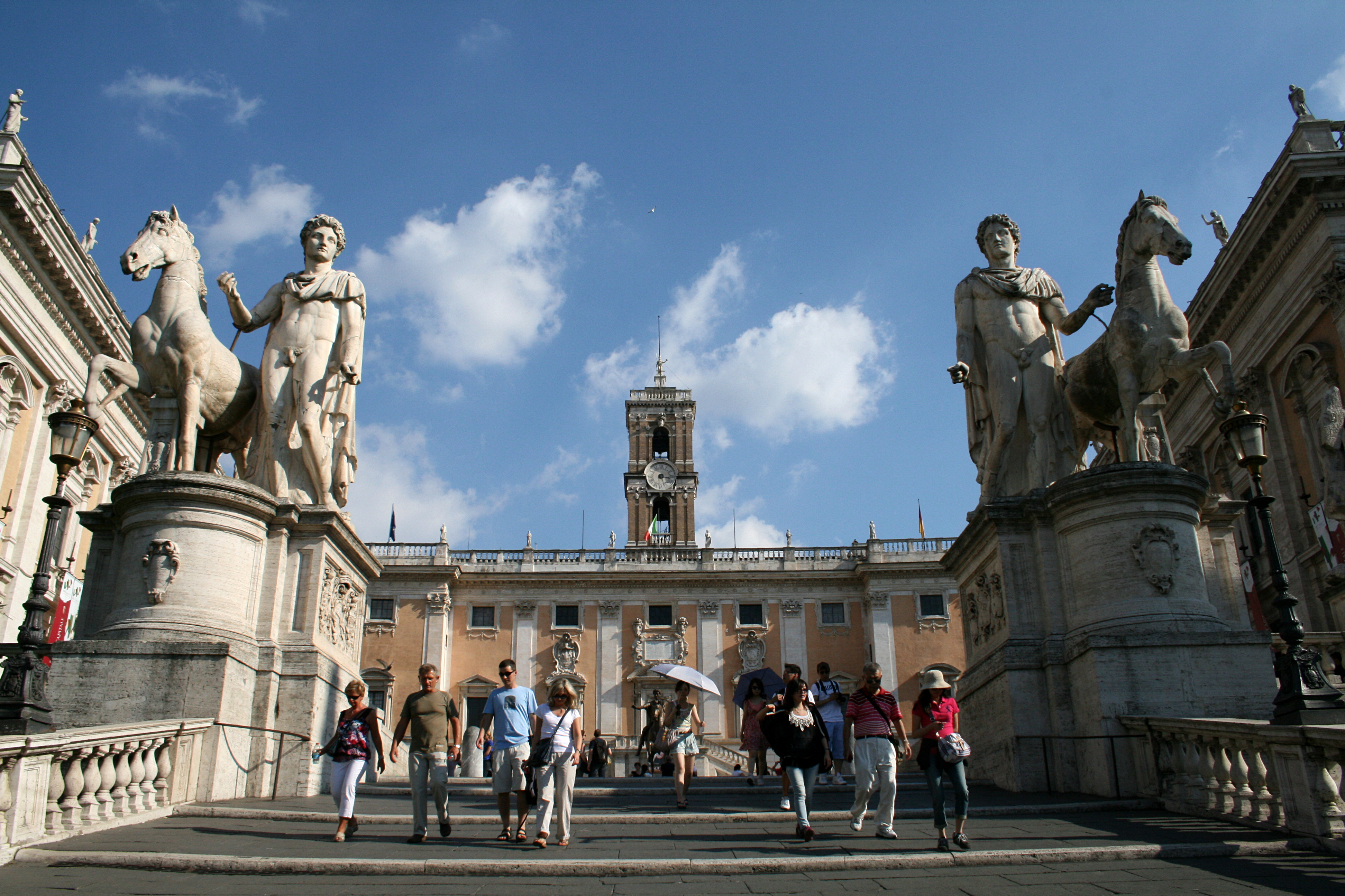 The Cordonata, the Dioscuri and the Palazzo Senatori in Rome.